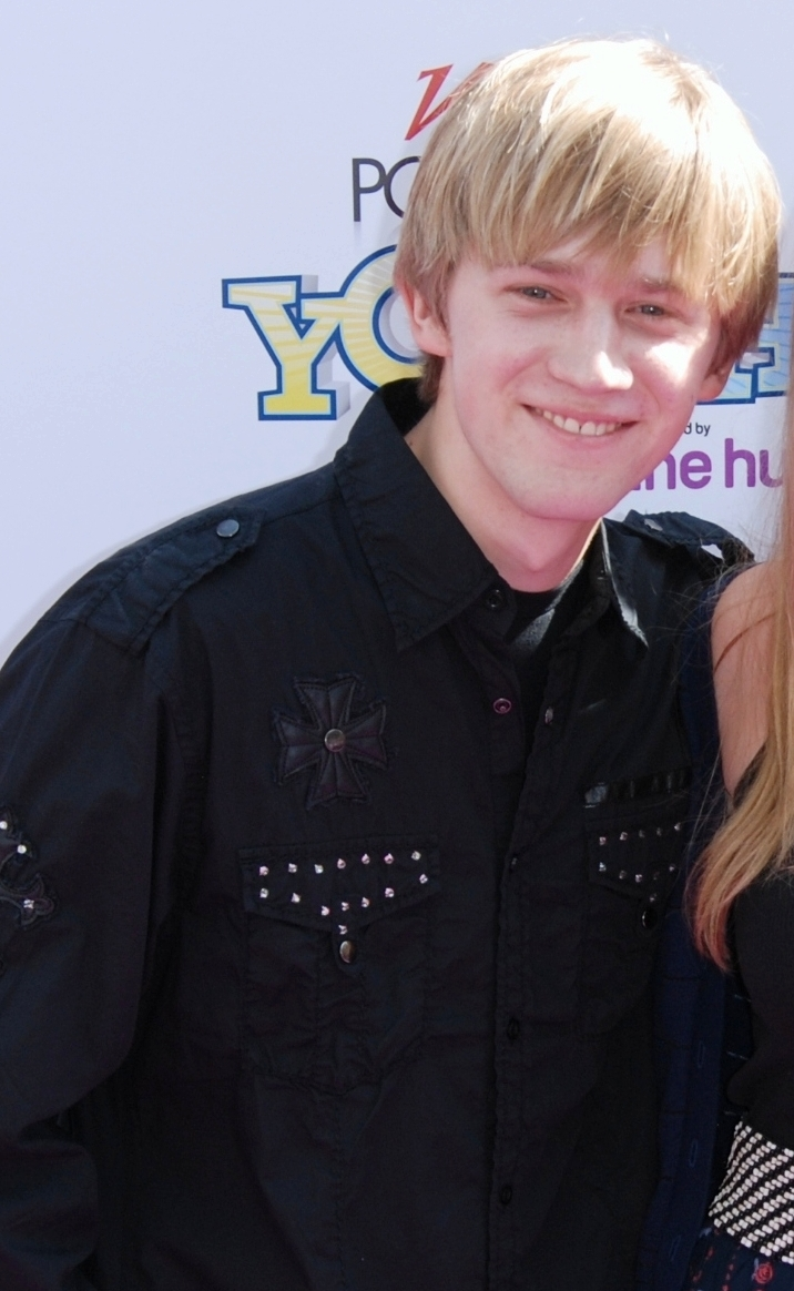 Jason Dolley attends the Variety's Power of Youth Event at Paramount Studios in Hollywood, CA, Oct 24, 2010